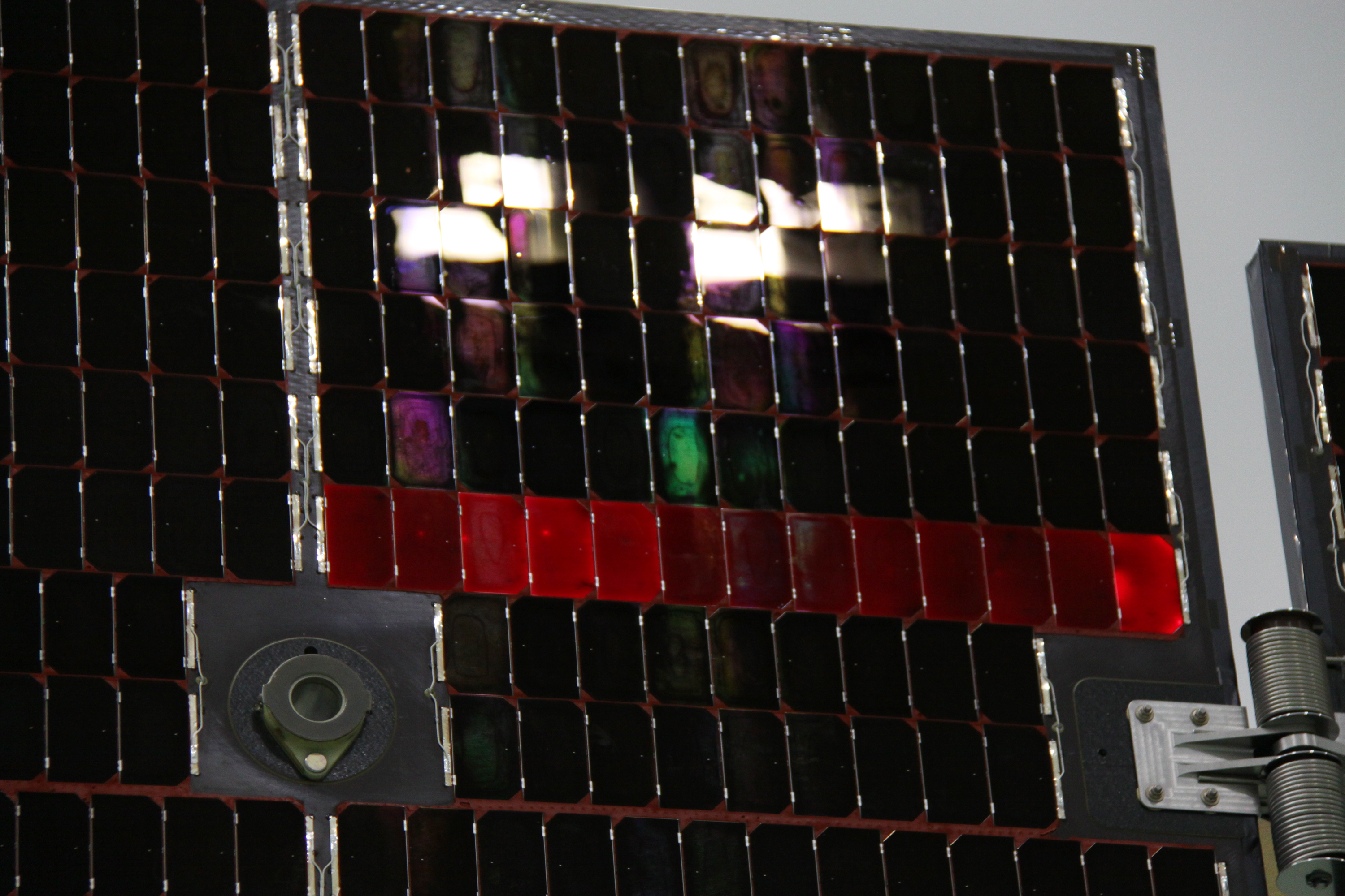 CAPE CANAVERAL, Fla. -- The electrical continuity of a solar array that will help power NASA's Juno spacecraft on a mission to Jupiter is tested in the Astrotech payload processing facility in Titusville, Fla. Power-generating panels on three sets of solar arrays will extend outward from Juno’s hexagonal body, giving the overall spacecraft a span of more than 66 feet in order to operate at such a great distance from the sun. Juno is scheduled to launch aboard an Atlas V rocket from Cape Canaveral, Fla., on Aug. 5, 2011, reaching Jupiter in July 2016. The spacecraft will orbit the giant planet more than 30 times, skimming to within 3,000 miles above its cloud tops, for about one year. With its suite of science instruments, the spacecraft will investigate the existence of a solid planetary core, map Jupiter's intense magnetic field, measure the amount of water and ammonia in the deep atmosphere, and observe the planet's auroras. For more information visit